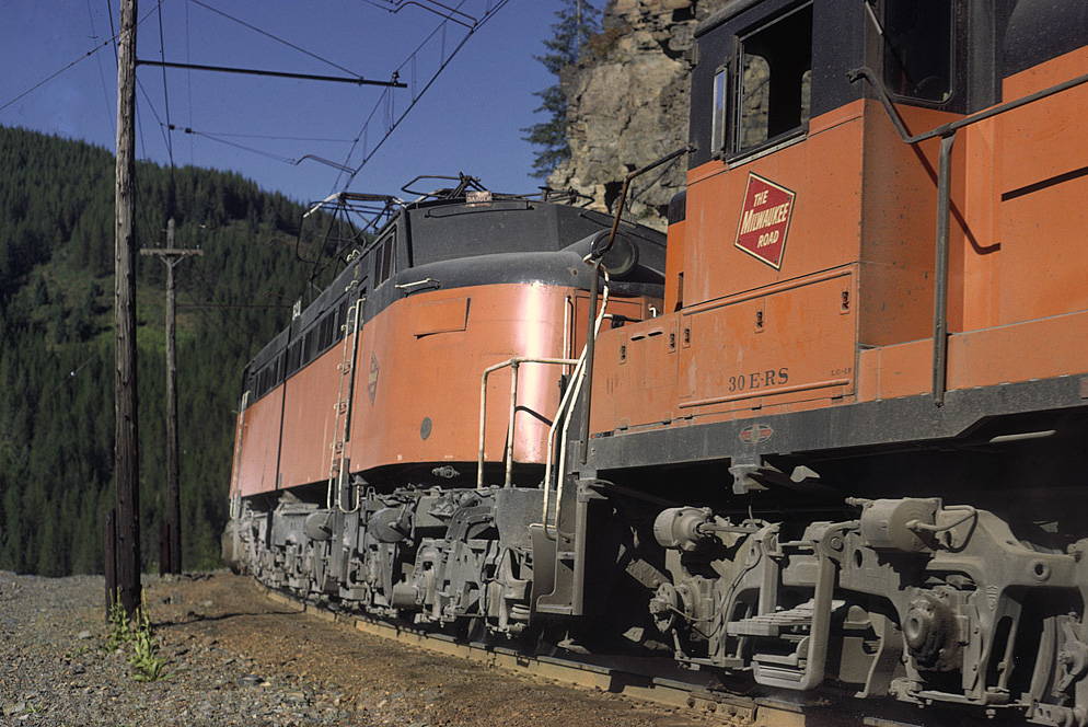 Milwaukee Road E21 leads a train in Avery, Idaho in 1971.